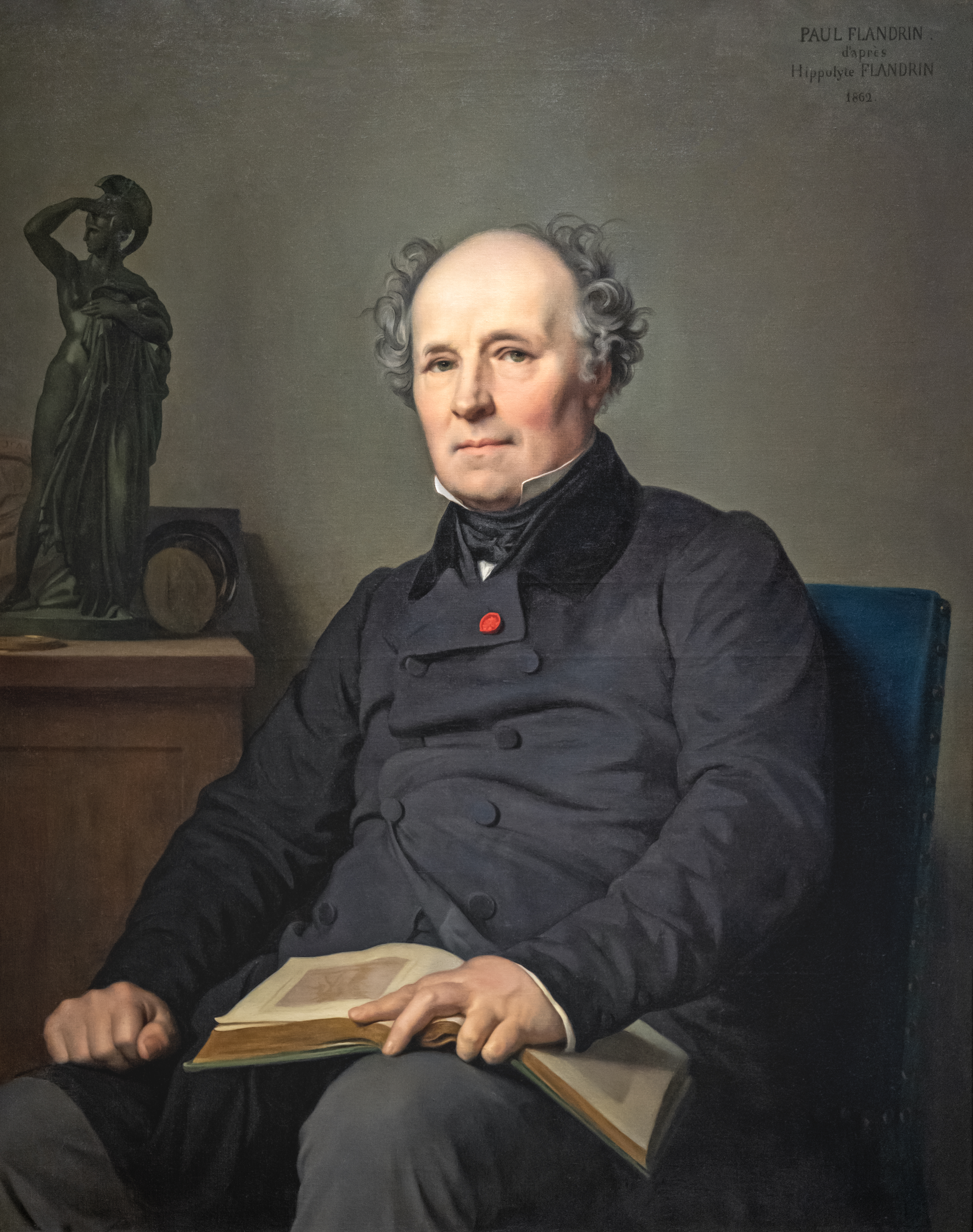 Depicted person: Jacques-Édouard Gatteaux – French sculptor and medal engraver